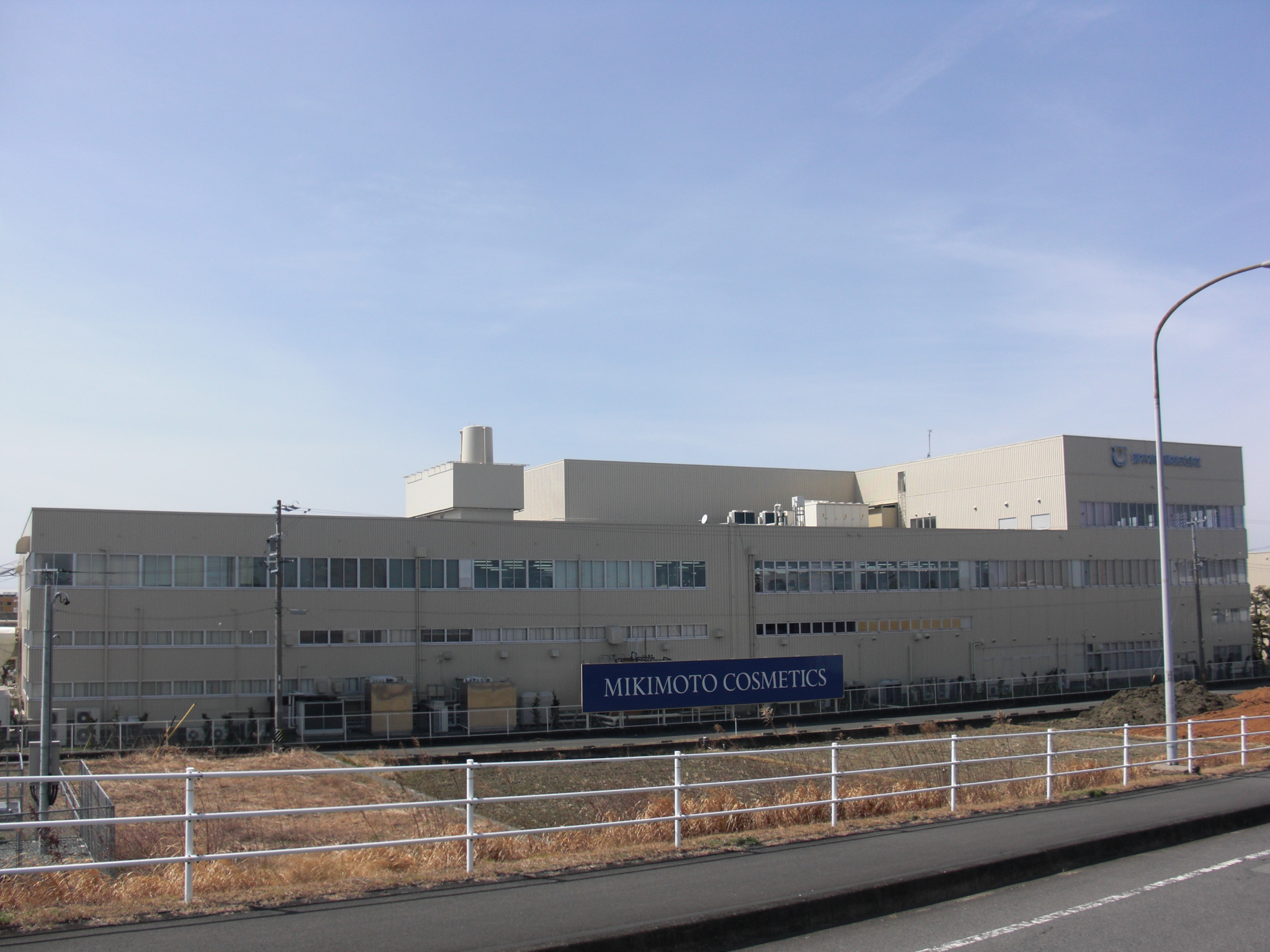 This is the head office of Mikimoto Pharmaceutical Co.,Ltd.